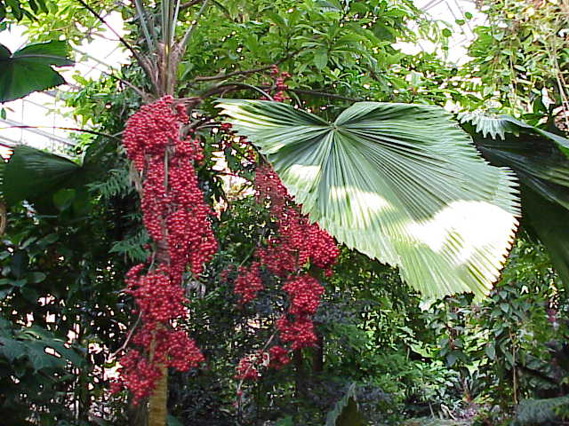 Species: Licuala grandis Family: Arecaceae Image No. 4